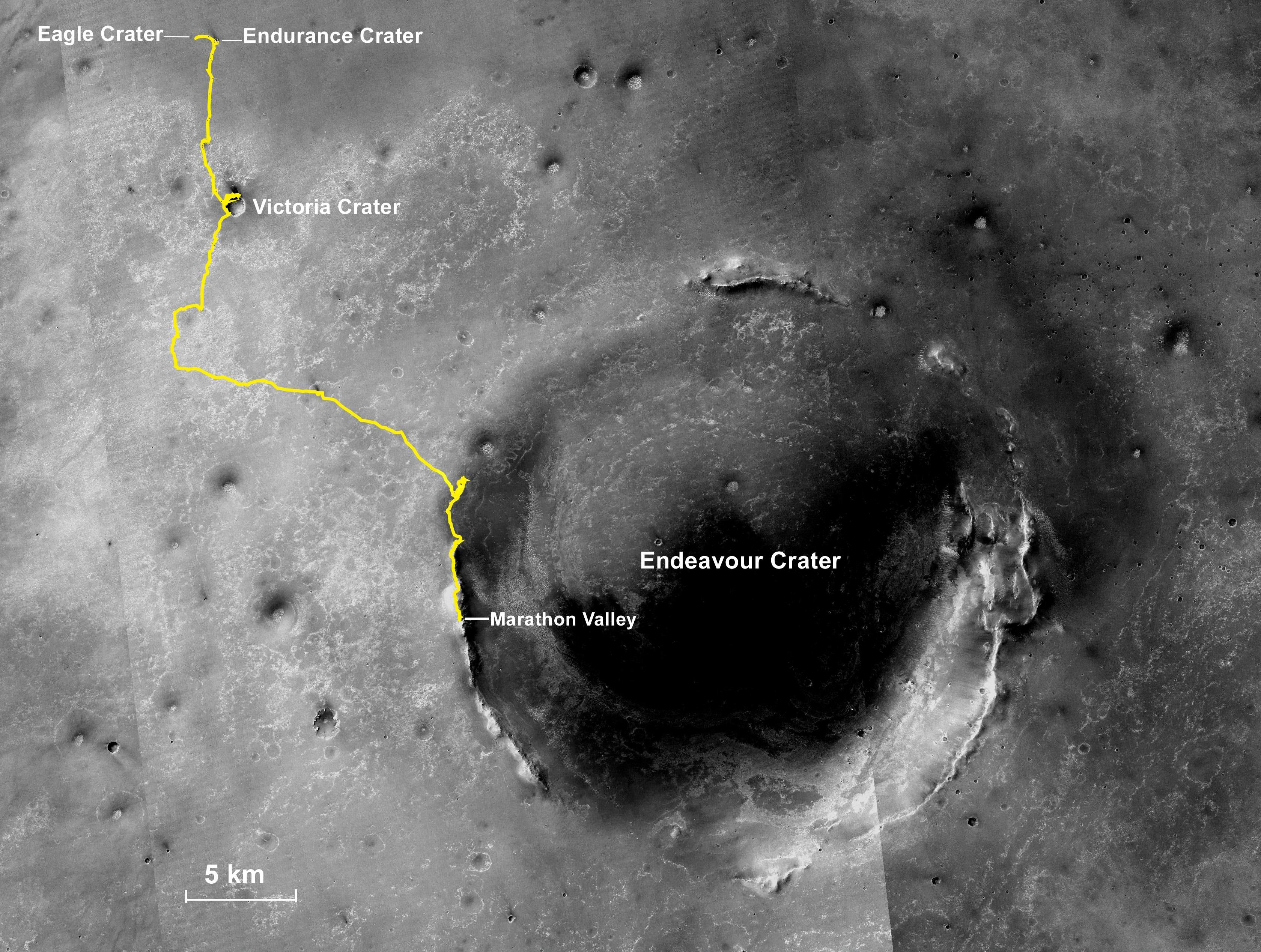 NASA's Mars Exploration Rover Opportunity, working on Mars since January 2004, passed marathon distance in total driving on March 24, 2015, during the mission's 3,968th Martian day, or sol. A drive of 153 feet (46.5 meters) on Sol 3968 brought Opportunity's total odometry to 26.221 miles (42.198 kilometers). Olympic marathon distance is 26.219 miles (42.195 kilometers). The gold line on this image shows Opportunity's route from the landing site inside Eagle Crater, in upper left, to its location after the Sol 3968 drive. The mission has been investigating on the western rim of Endeavour Crater since August 2011. This crater spans about 14 miles (22 kilometers) in diameter. The mapped area is all within the Meridiani Planum region of equatorial Mars, which was chosen as Opportunity's landing area because of earlier detection of the mineral hematite from orbit. North is up. The base image for the map is a mosaic of images taken by the Context Camera on NASA's Mars Reconnaissance Orbiter. Earlier versions of this map, with other features labeled, are at PIA17758 and PIA18404. Opportunity completed its three-month prime mission in April 2004 and has continued operations in bonus extended missions. It has found several types of evidence of ancient environments with abundant liquid water. The Mars Reconnaissance Orbiter reached Mars in 2006, completed its prime mission in 2010, and is also working in an extended mission. This traverse map was made at the New Mexico Museum of Natural History & Science, Albuquerque. NASA's Jet Propulsion Laboratory, a division of the California Institute of Technology in Pasadena, manages the Mars Exploration Rover Project and the Mars Reconnaissance Orbiter for the NASA Science Mission Directorate, Washington. Malin Space Science Systems, San Diego, built and operates the orbiter's Context Camera.